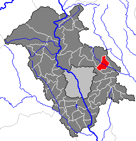 This map shows the area of the Gemeinde (municipality) Hart-Purgstall in the Bezirk (district) Graz-Umgebung, Styria, Austria.